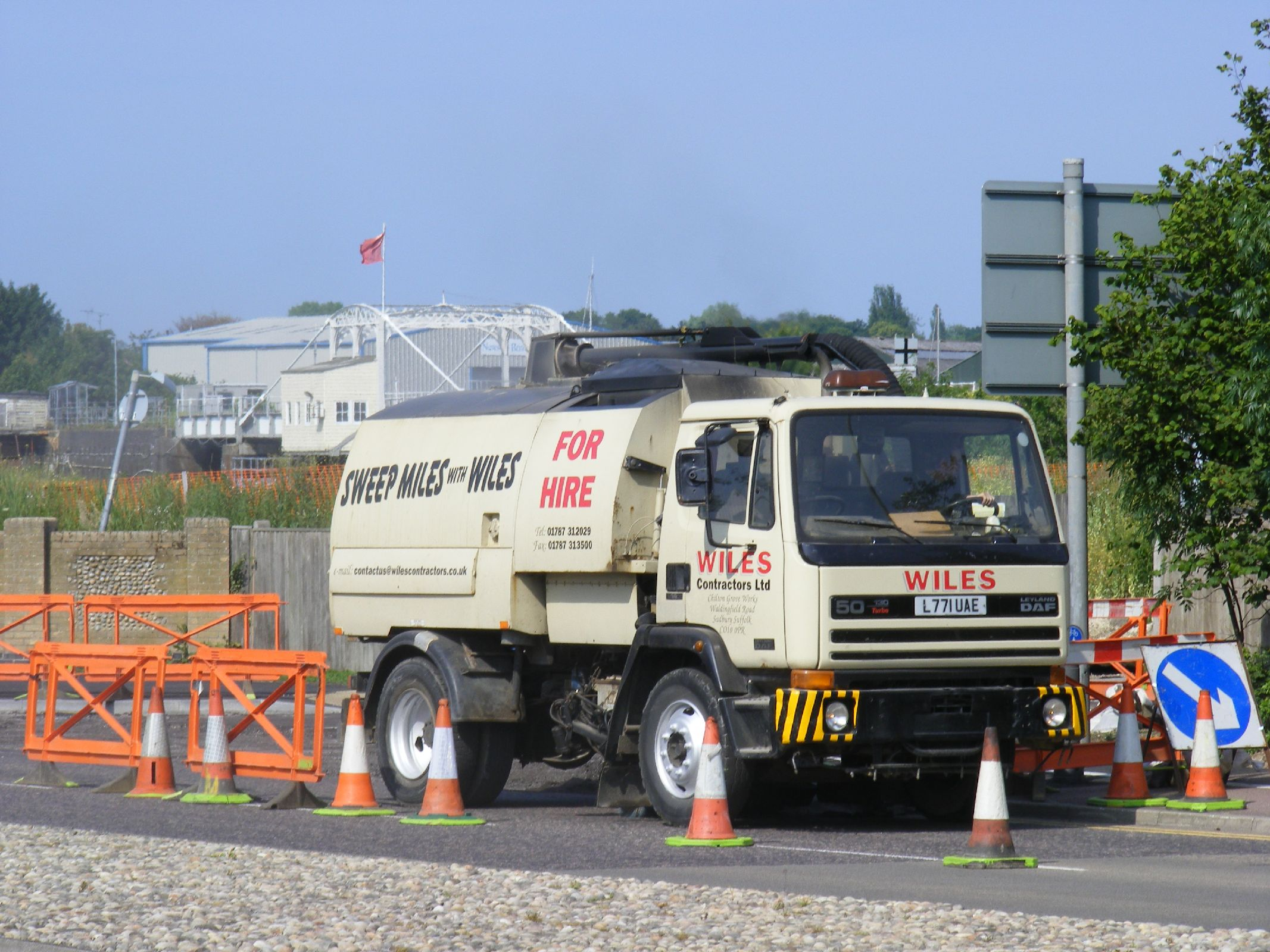 Leyland DAF 50 130 Turbo sweeper - more usually 45-130 or 50 150.